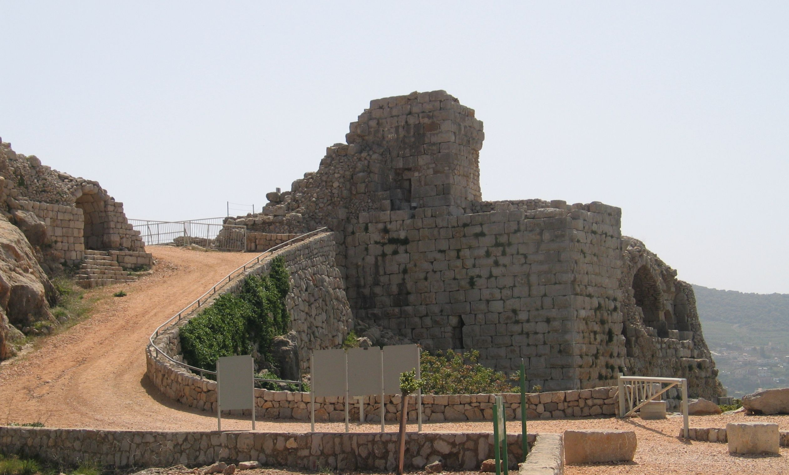 Nimrod fortress, southwestern towers, from the northwest.